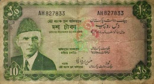 The Bengali scripted side of a Pakistani rupee banknote prior to 1971